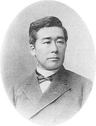 R. Nakashima, Professor of Psychology, Ethics, and Logic.